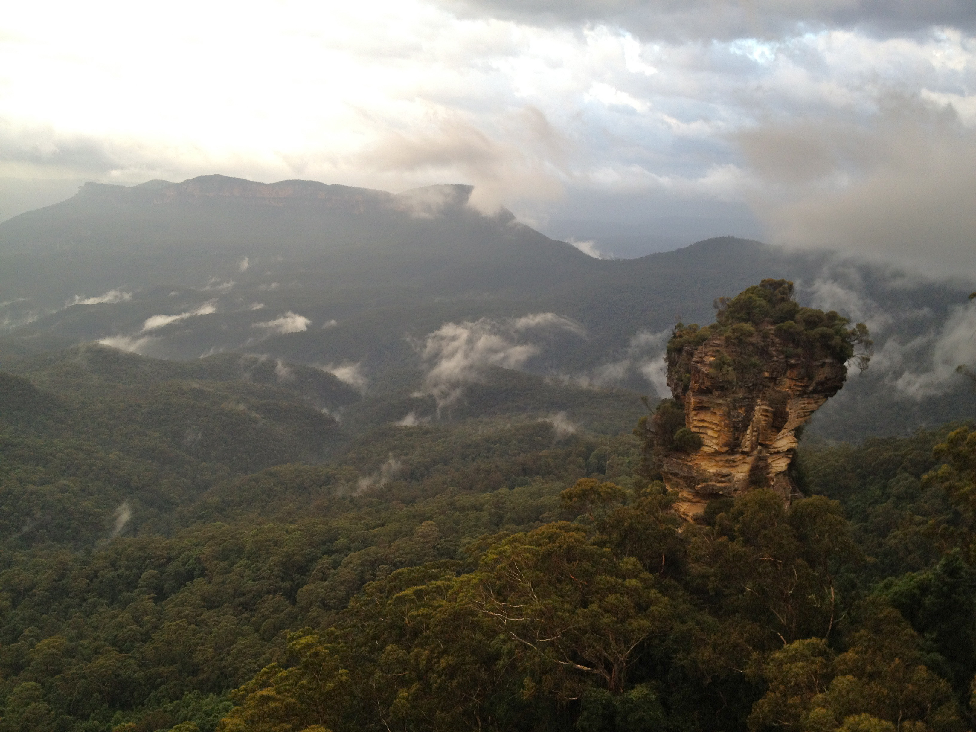 The rain cleared and the sun lit up the mist nestled in the valleys - gorgeous